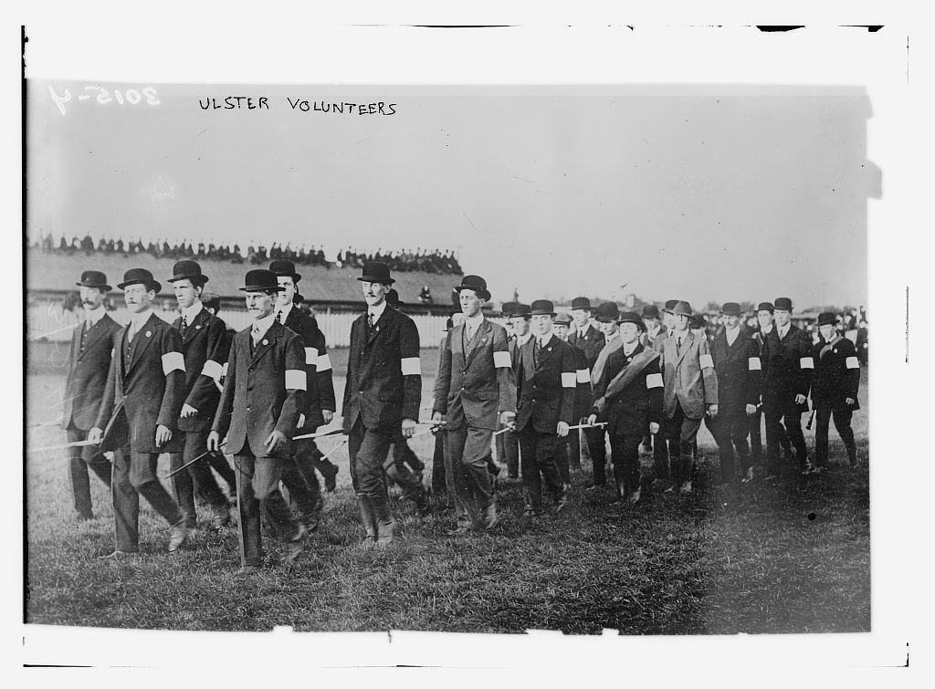 Ulster Volunteers in 1914 Bain News Service,, publisher. Ulster Volunteers [between ca. 1910 and ca. 1915] Notes: Title from unverified data provided by the Bain News Service on the negatives or caption cards. Forms part of: George Grantham Bain Collection (Library of Congress). Format: Glass negative, 5 x 7 in. or smaller Repository: Library of Congress, Prints and Photographs Division, Washington, D.C. 20540 USA, General information about the Bain Collection is available at Persistent URL: Call Number: LC-B2- 3015-4